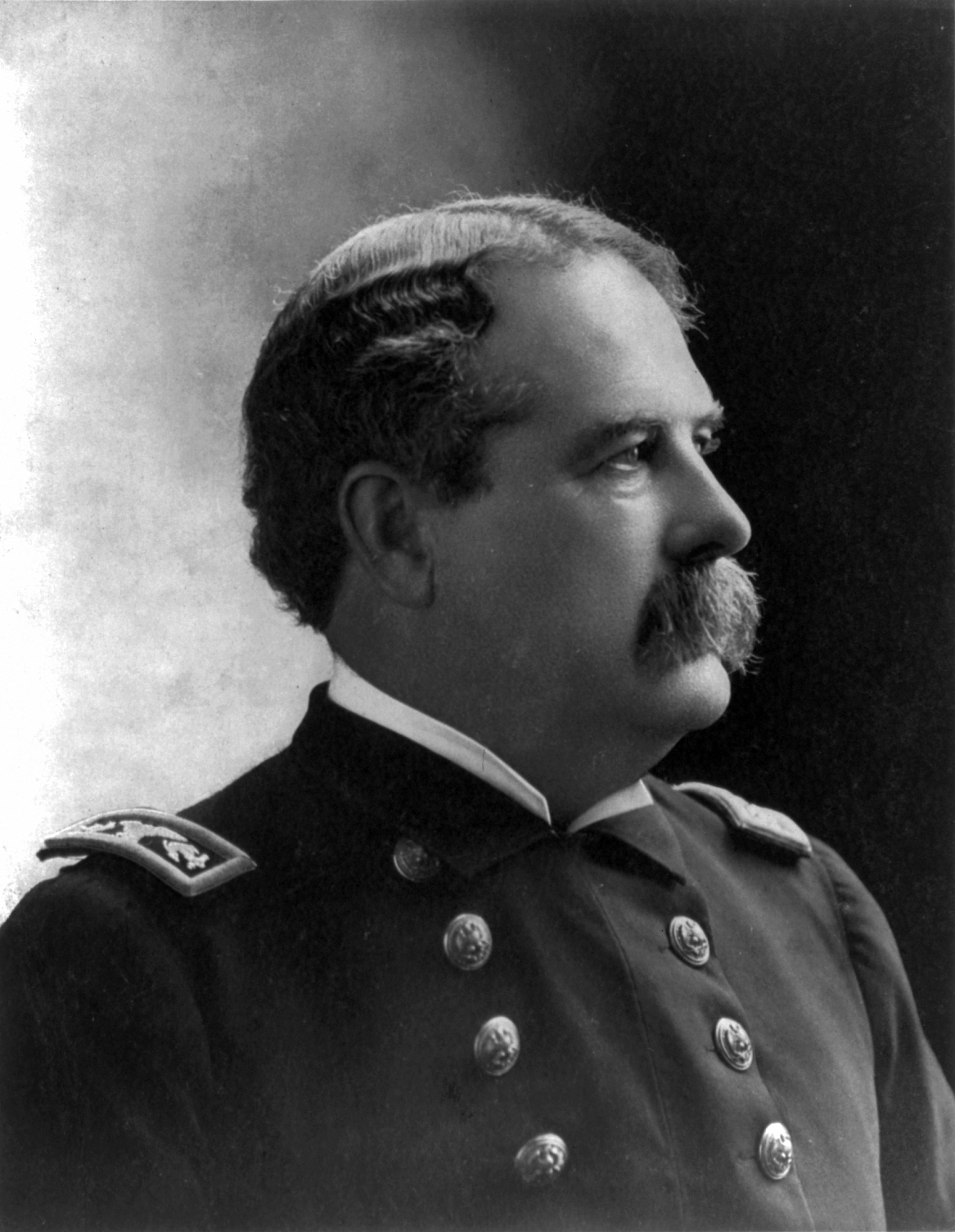 Charles Edgar Clark, captain of the USS Oregon, in uniform, facing right.